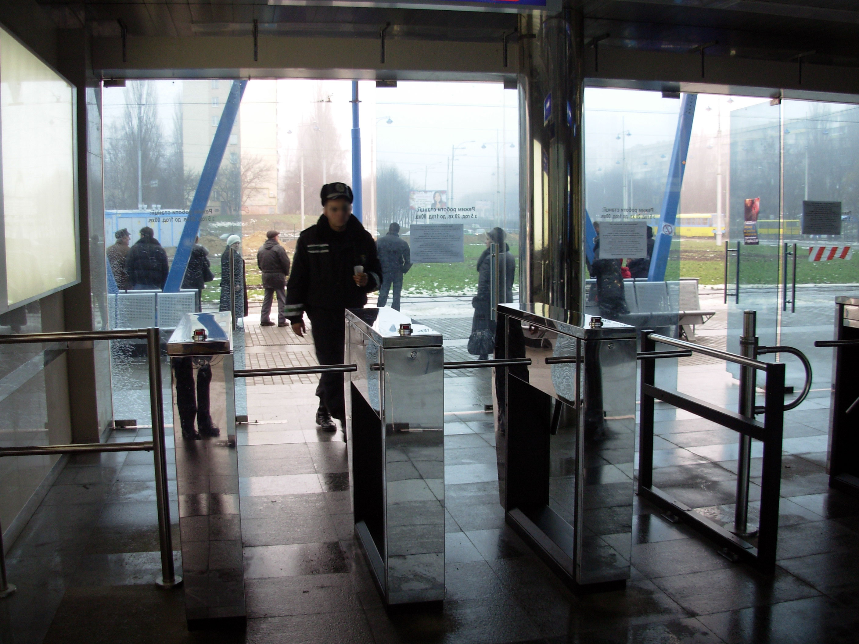 Kiltseva Doroha Station of Kyiv Fast Tram after renovation, 2010. Station vestibule